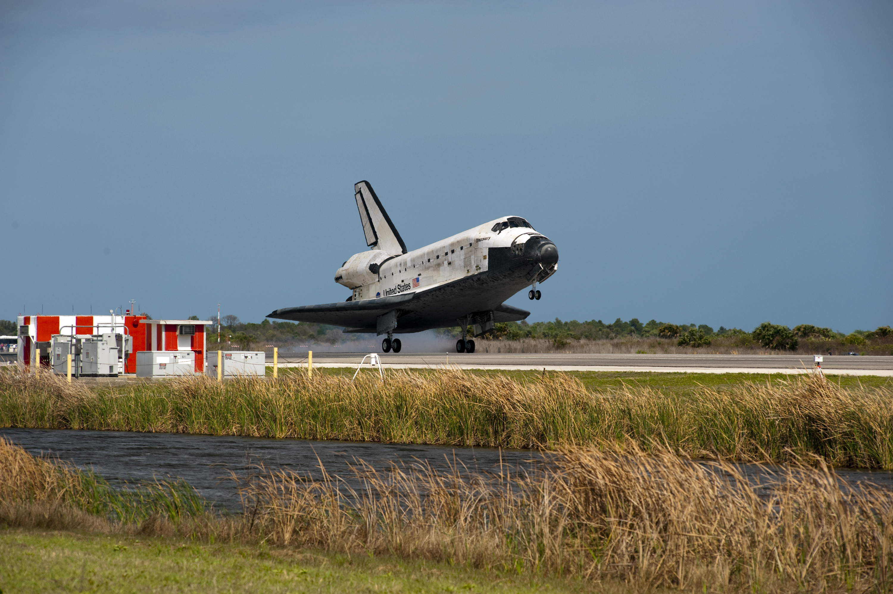 CAPE CANAVERAL, Fla. -- Space shuttle Discovery touches down on Runway 15 at the Shuttle Landing Facility at NASA's Kennedy Space Center in Florida. Landing was at 11:57 a.m. EST, completing the 13-day STS-133 mission to the International Space Station. Main gear touchdown was at 11:57:17 a.m., followed by nose gear touchdown at 11:57:28, and wheelstop at 11:58:14 a.m. On board are Commander Steve Lindsey, Pilot Eric Boe, and Mission Specialists Nicole Stott, Michael Barratt, Alvin Drew and Steve Bowen. Discovery and its six-member crew delivered the Permanent Multipurpose Module, packed with supplies and critical spare parts, as well as Robonaut 2, the dexterous humanoid astronaut helper, to the orbiting outpost. STS-133 was Discovery's 39th and final mission. This was the 133rd Space Shuttle Program mission and the 35th shuttle voyage to the space station.